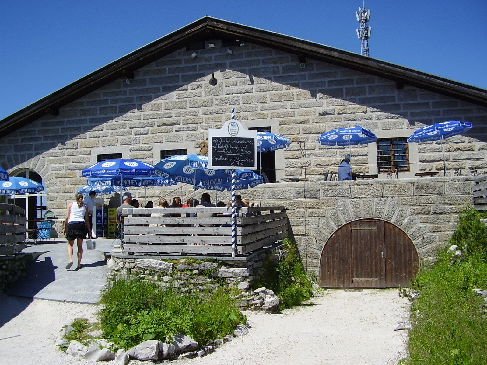 Restaurant by Kehlsteinhaus